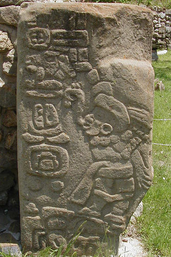 Summary Jami Dwyer, This photo was moved from english Wikipedia. It was taken from the Monte Albán article of that wikipedia.